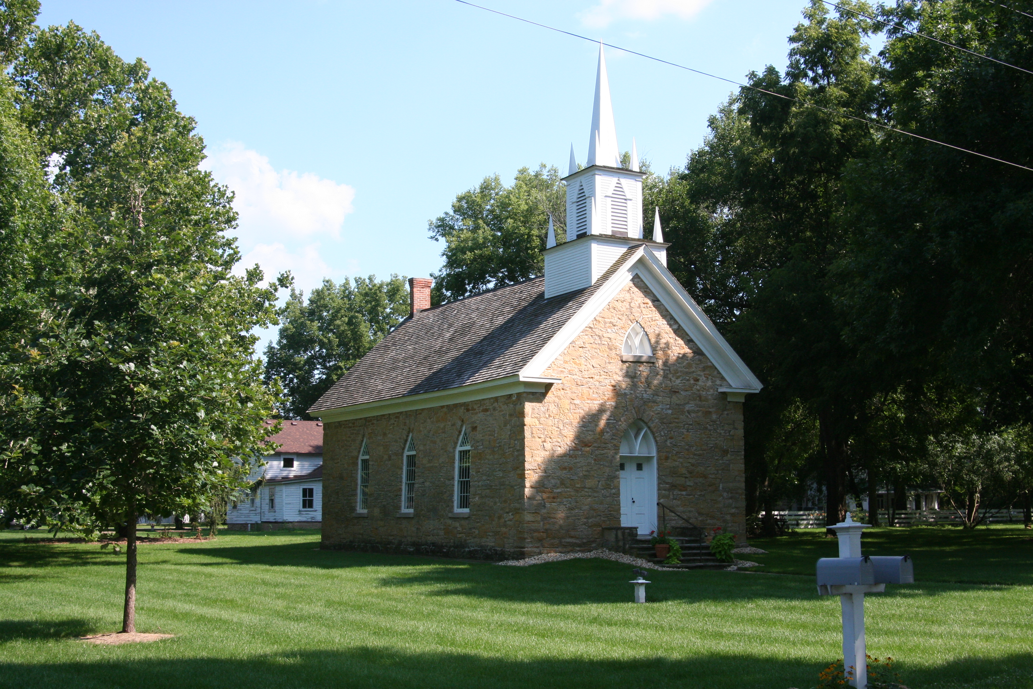 A fully restored St. Peter's Church in Grand Detour, Illinois, USA.